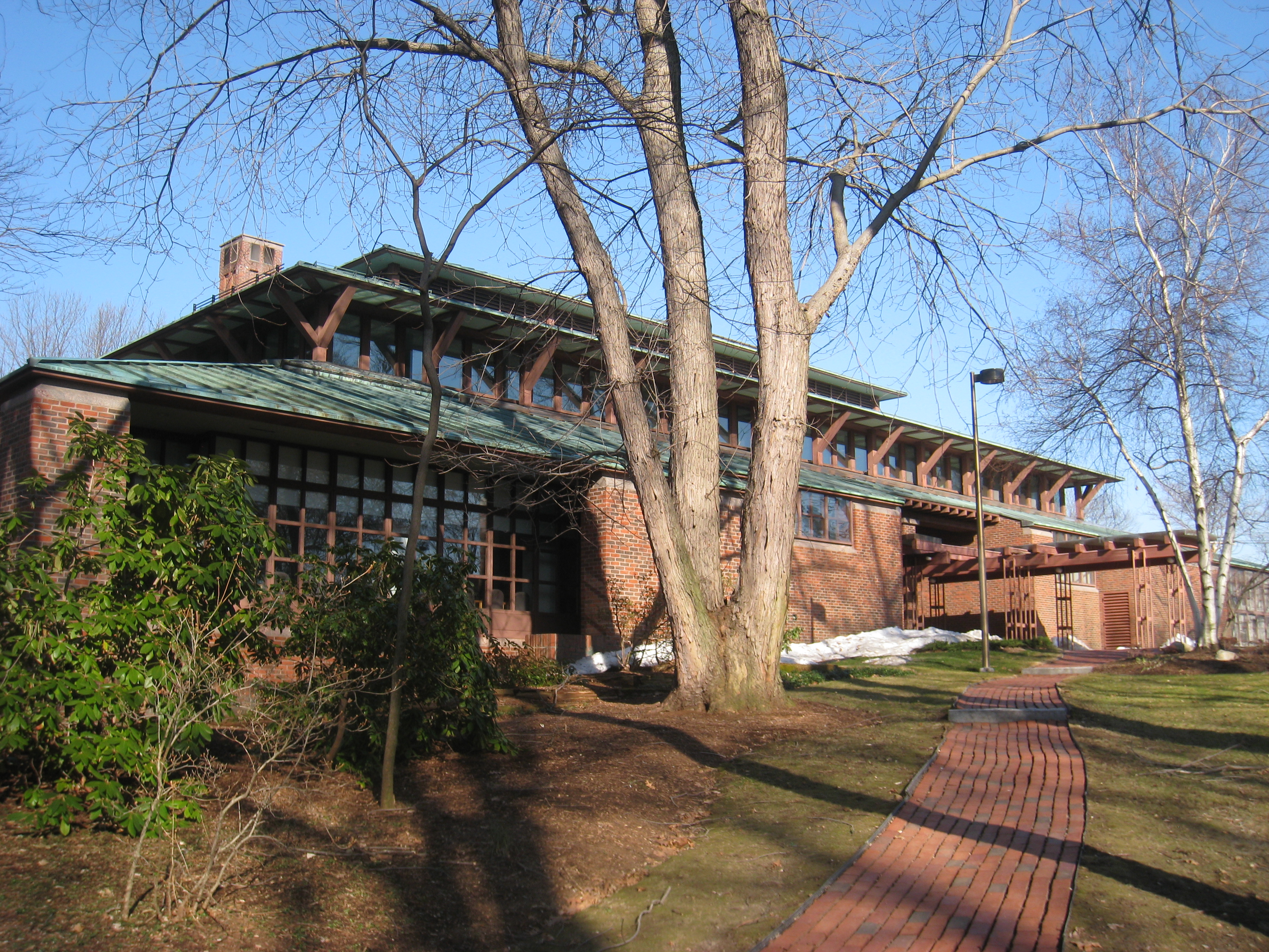 American Academy of Arts and Sciences building, Cambridge, Massachusetts, USA. Exterior view.